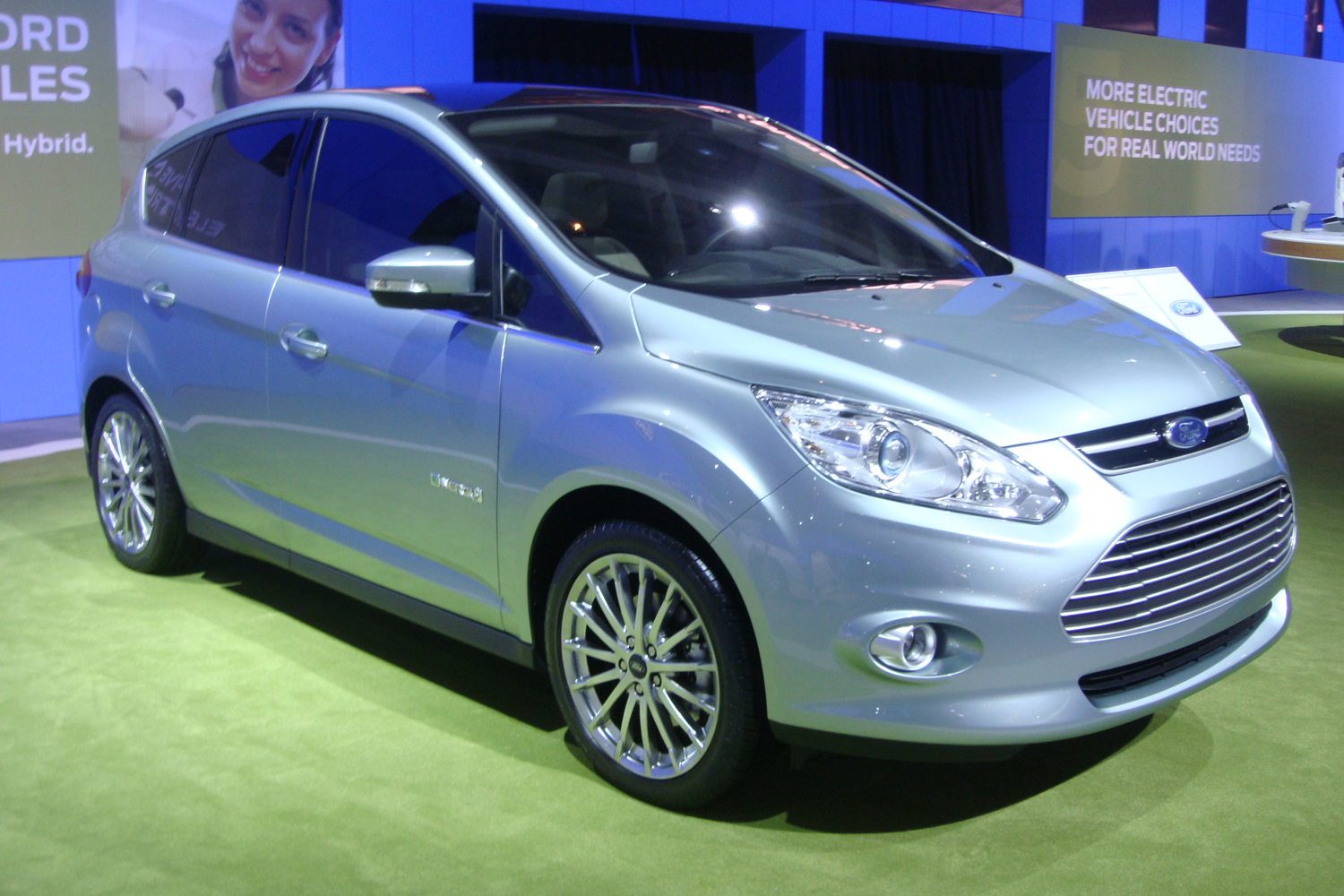 Ford C-Max Energi plug-in hybrid exhibited at the 2011 Wahsington DC Auto Show